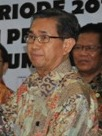 Irwan Prayitno shook hands with Fachri Ahmad when inaugurated as Chair of the Regional Research Council (DRD) of West Sumatra Province for the period of 2016-2021 at the Auditorium of the Governor of West Sumatra Province, Tuesday, May 10, 2016.